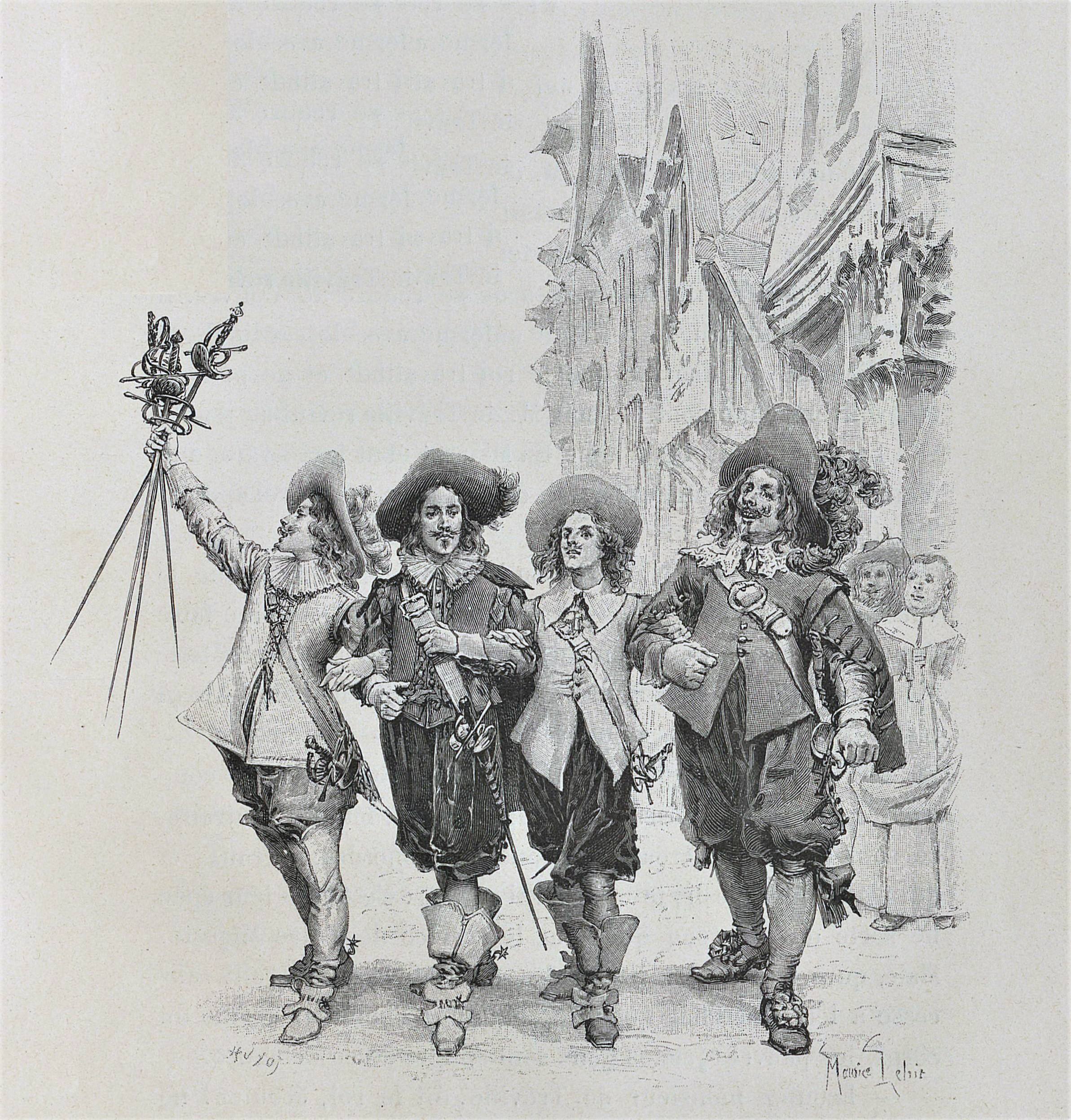 The Three Musketeers by Alexandre Dumas (illustration of the Appleton edition).